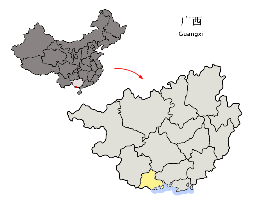 Location of Fangchenggang Prefecture (yellow) within Guangxi Autonomous Region of China Map drawn in november 2007 using various sources, mainly : Guangxi Autonomous Region administrative regions GIS data: 1:1M, County level, 1990 Guangxi Counties map from